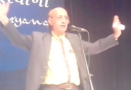 Famous Hindi-Urdu Poet Nida Fazli, Reciting at Jashn-e-Hryana in Chandigarh, 28 January 2014